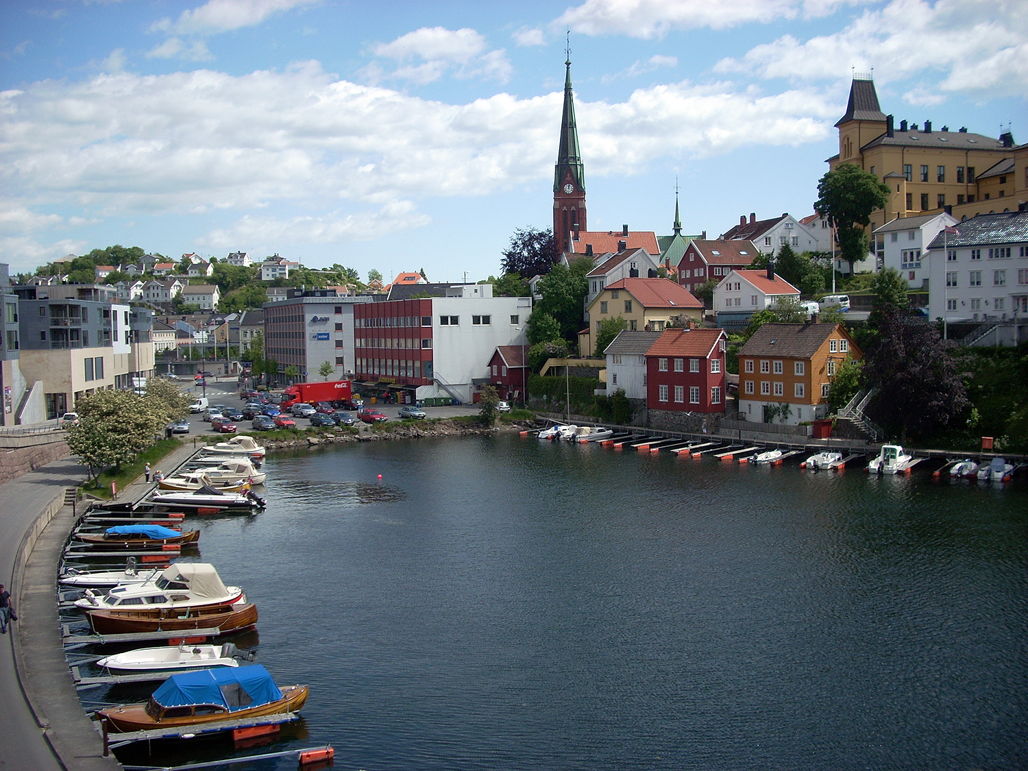 Kittelsbukt in Arendal, Norway